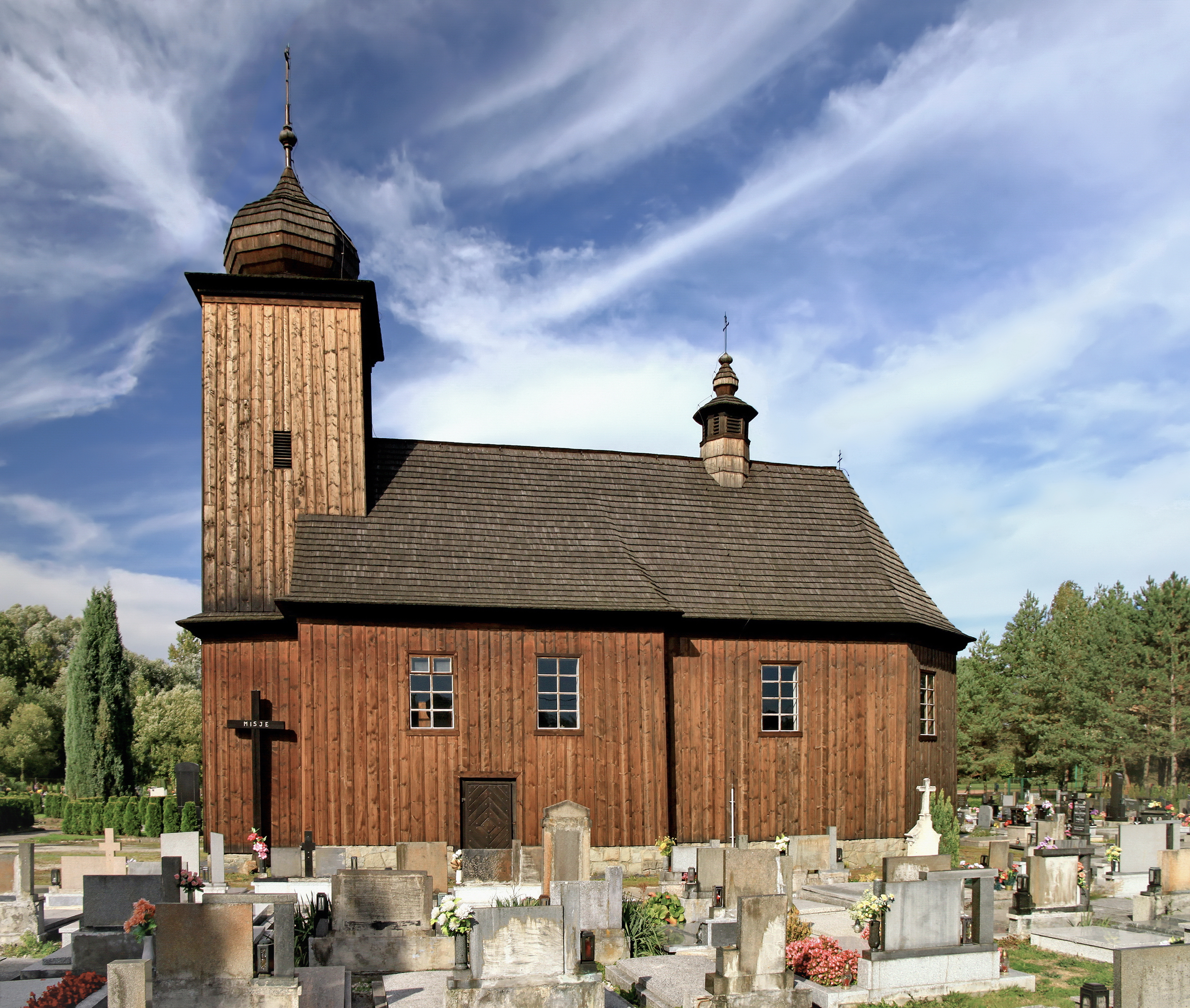 Church of Saints Peter and Paul. Albrechtice, Moravian-Silesian Region, Czech Republic.